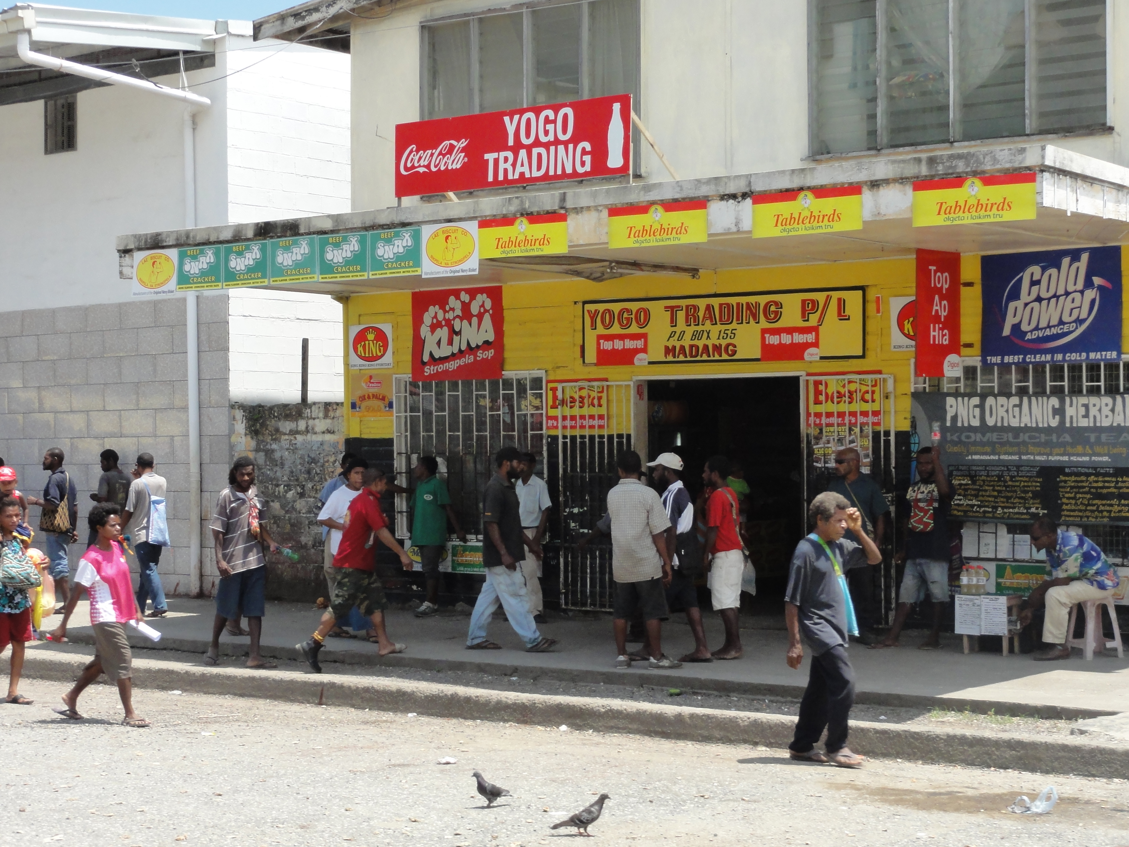 Learn more about Papua New Guinea on eGuide Travel where we did a review. A country of a million journeys and not a place with many tourists.